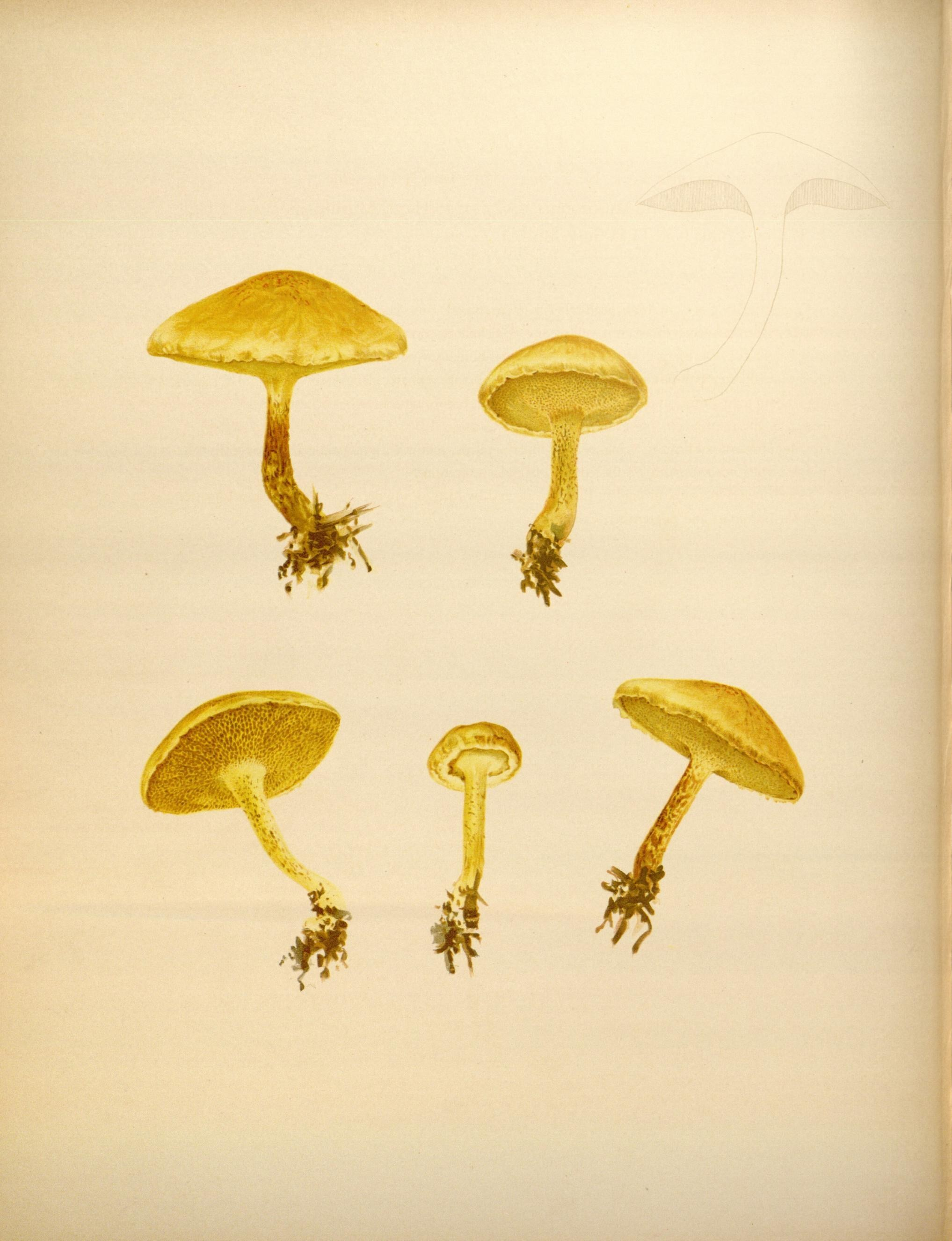 Icones Farlowianae :illustrations of the larger Fungi of eastern North America